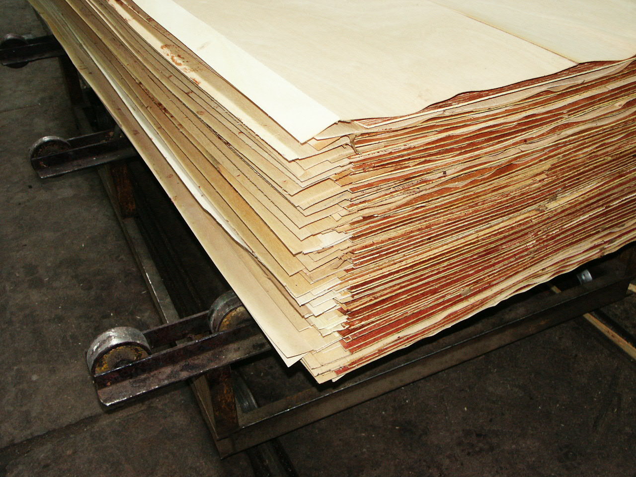 a pile of veneer wood before cold press (prepress)